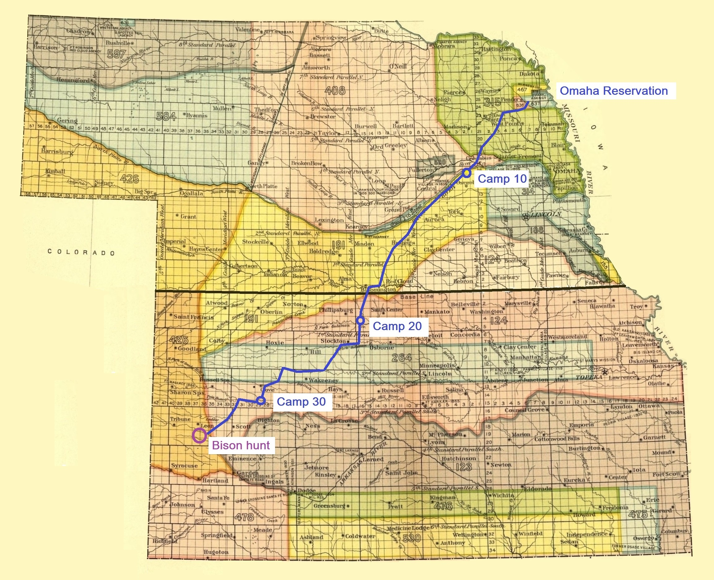 Itinerary of the last tribal hunt by the Omaha. Route drawn as described by Gilmore, Melvin R.: "Methods of Indian Buffalo Hunts, with the Itinerary of the last Tribal Hunt of the Omaha."